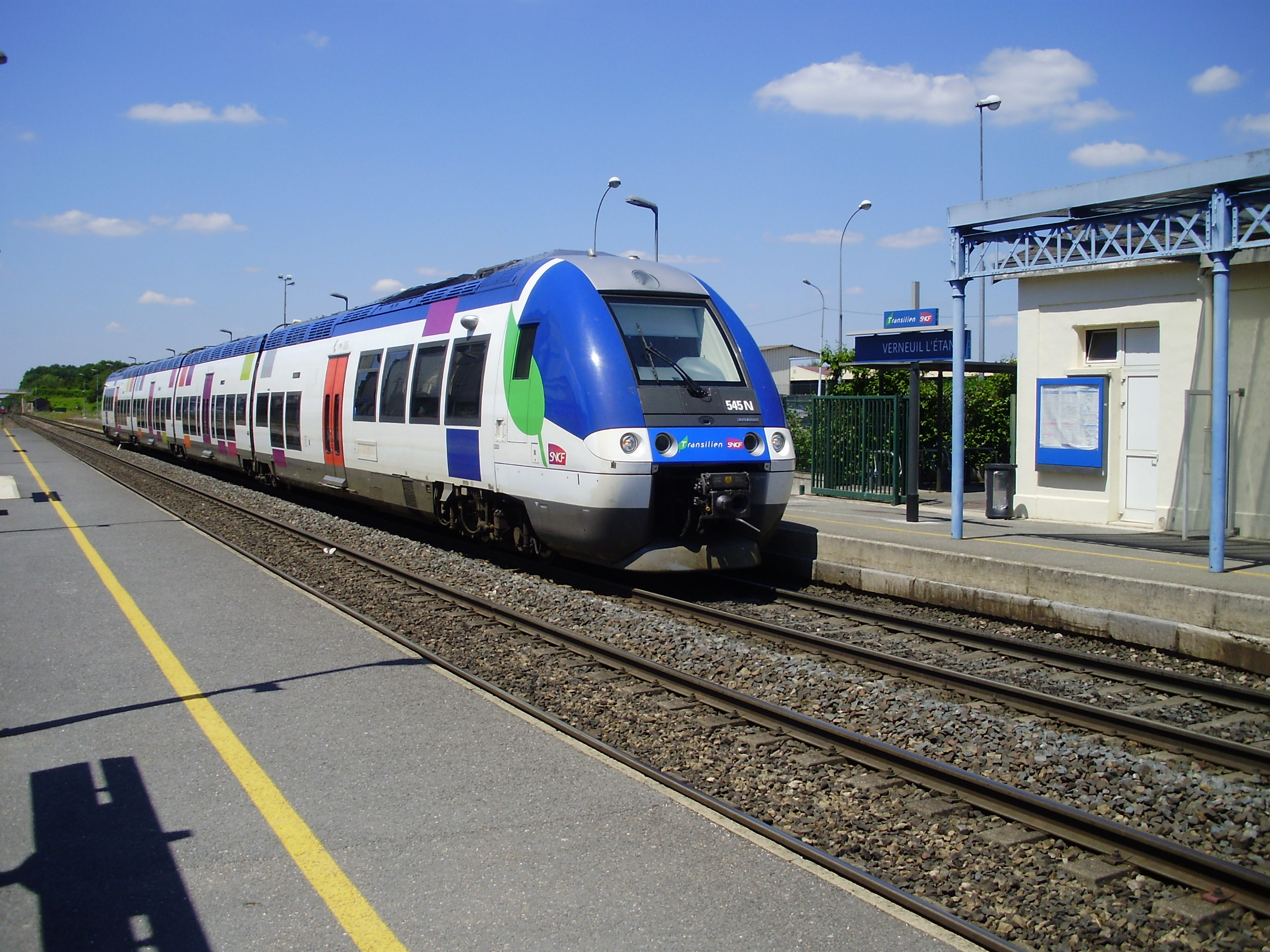 Arrival from Paris of a SNCF Class B 82500 unit in Verneuil-l'Étang station, Seine-et-Marne, France